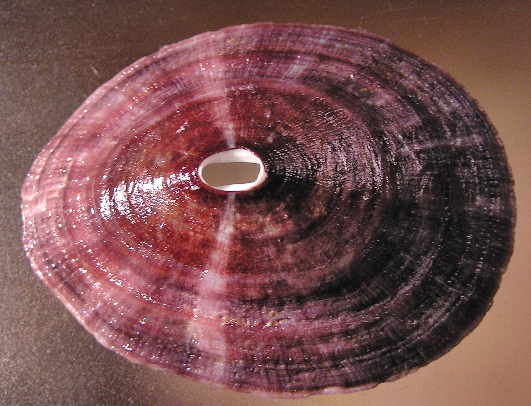 Fissurella latimarginata, Sowerby, 1835; a keyhole limpet from the family Fissurellidae; Chile